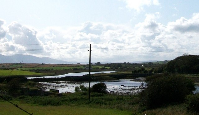 The old railway embankment across the head of Killough Harbour The branch line from Downpatick to Ardglass crossed the head of the Killough Harbour inlet by means of a causeway. It then proceeded under the Killough Bridge to enter Killough Station, the site of which is now occupied by the Coney Island Caravan Park. Killough village and the station were linked by Station Road.